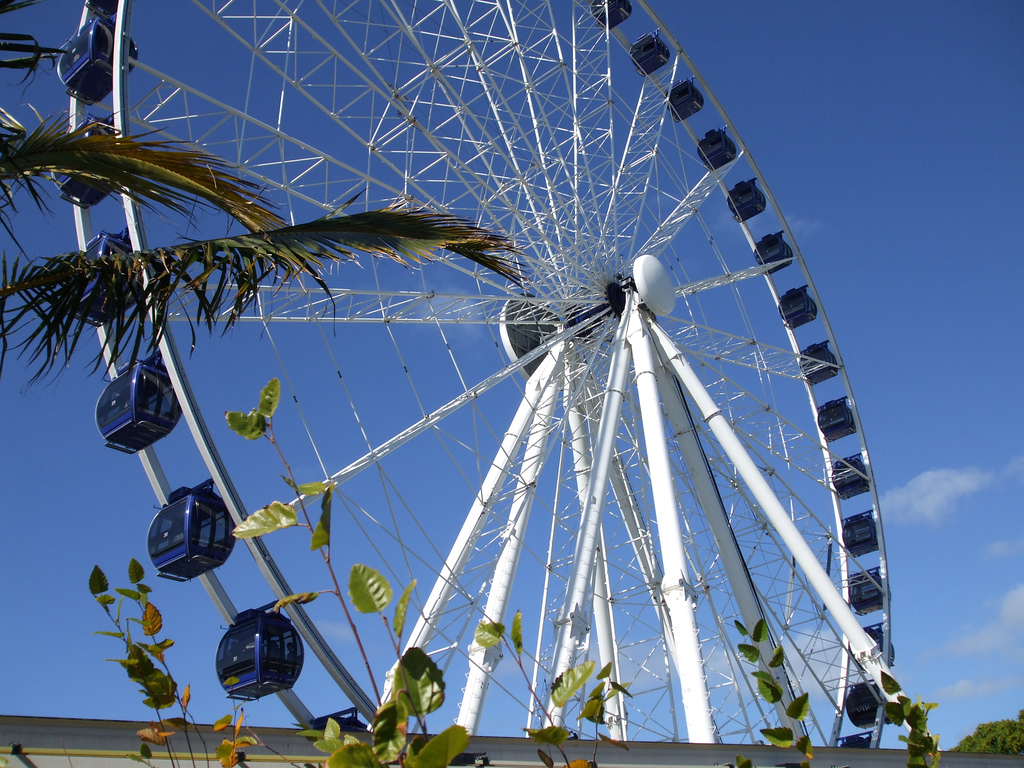 The Sea World Eye Ferris Wheel at Sea World on the Gold Coast, Queensland, Australia